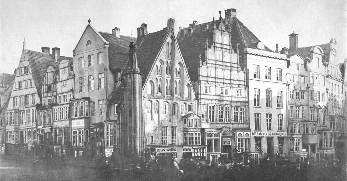 Photograph from 1859 of the southeast side of the Marktplatz (the “marketsquare”) and the adjoining Grasmarkt (the “grassmarket”) of Bremen, Germany, showing the row of old buildings dismantled in 1860 for the construction of the Neue Börse (the “new stock exchange”). Just left to the middle of the image the backside of the statue of Roland can be seen, behind it the house Balleer and next to it right hand the house Pundsack